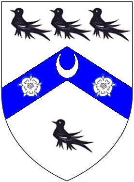 Arms of Watson, Baron Manton of Compton Verney: Argent, on a chevron azure between four martlets three in-chief and one in base sable a crescent between two roses of the field (Debrett's Peerage)